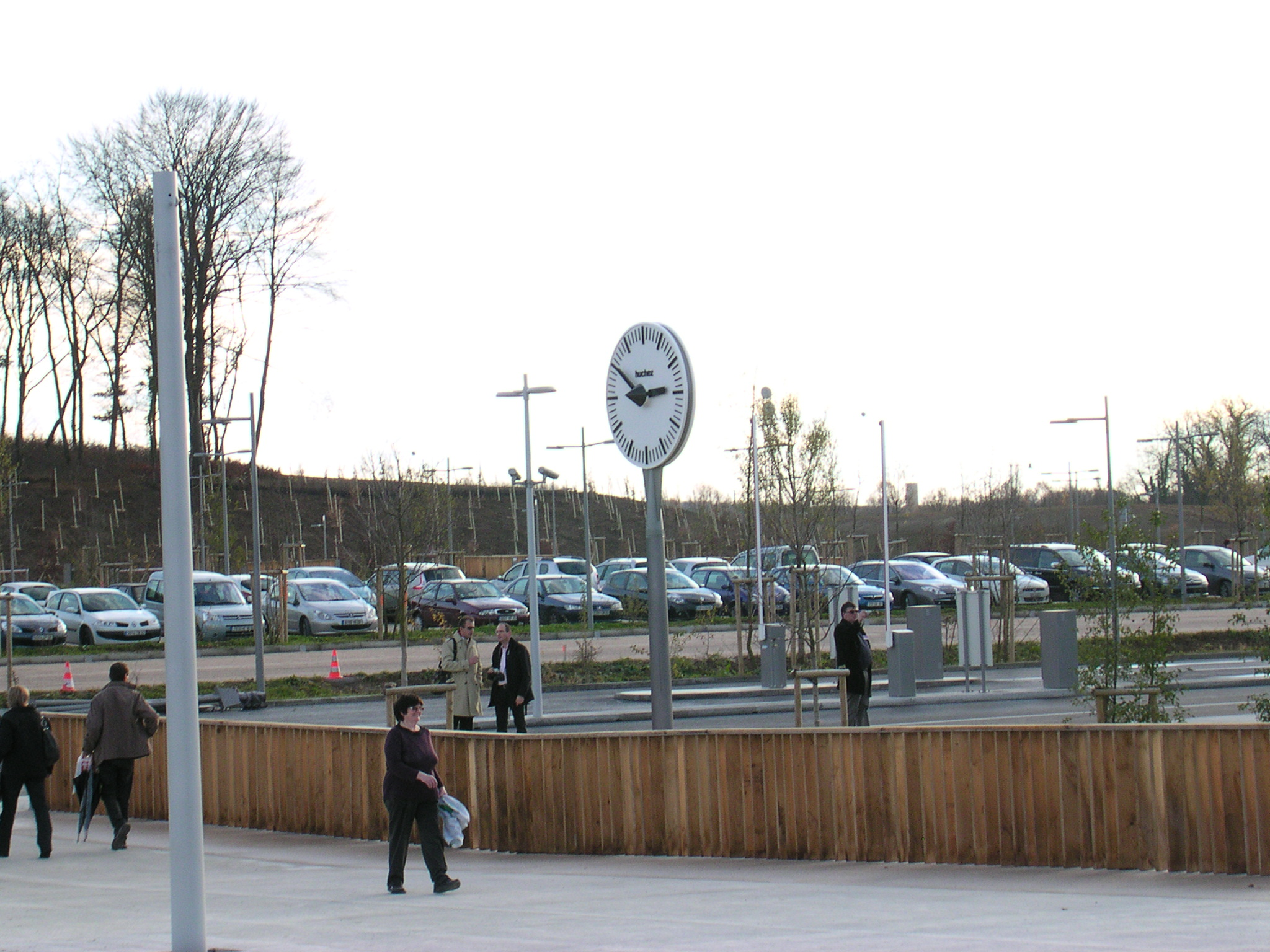 Clock in the parking lot of the Belfort - Montbéliard TGV railway station on the day of the station's inaugural.